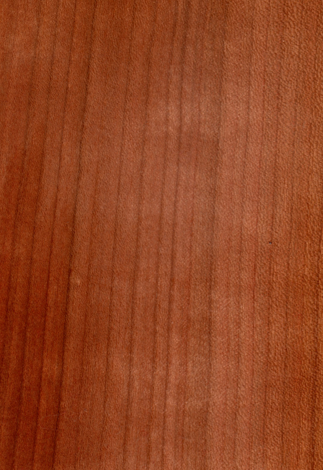 Wood of 'Prunus avium